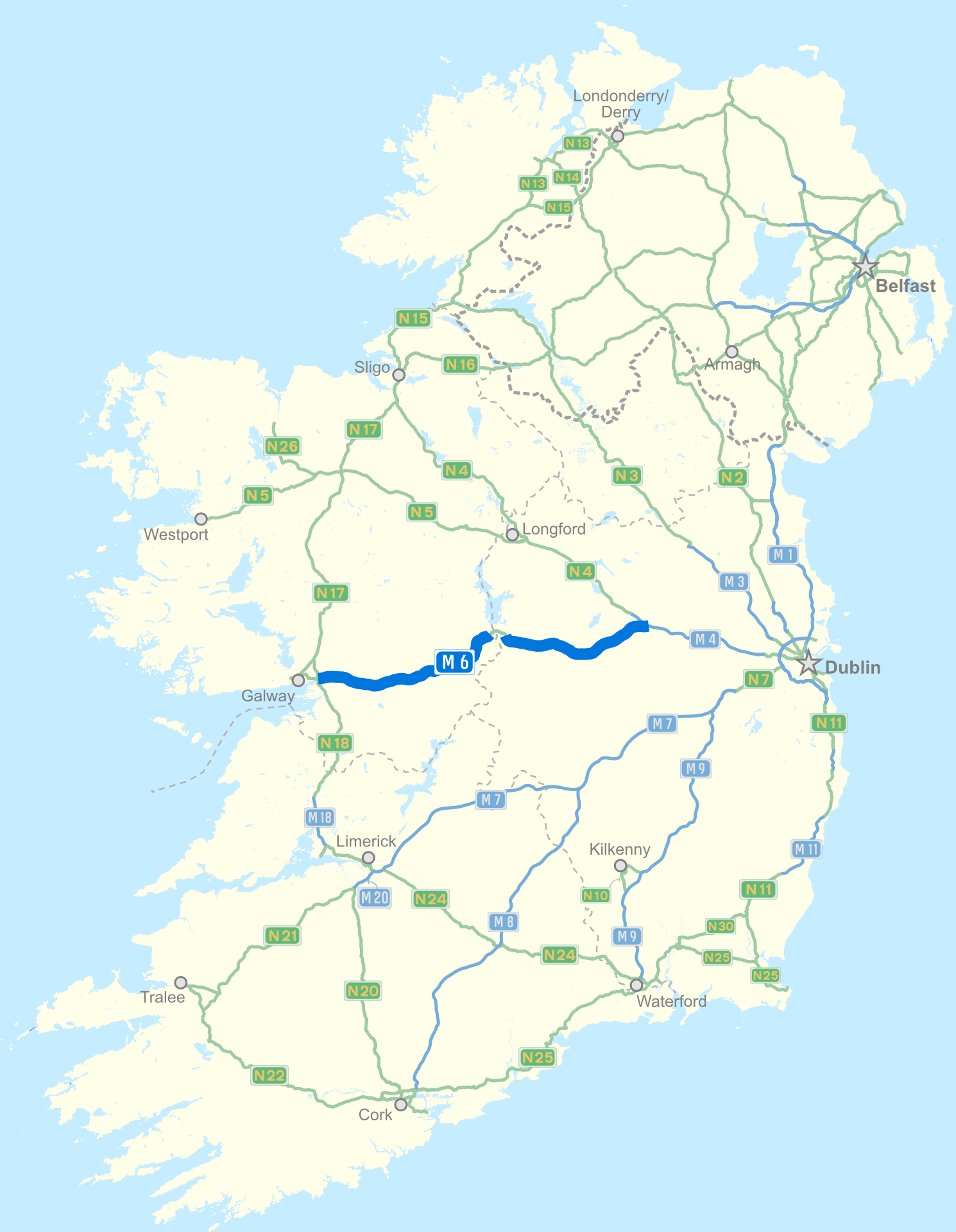 Map of M6 motorway (Ireland) with M6 blue bolded, Nxx routes in green and Mxx routes in blue